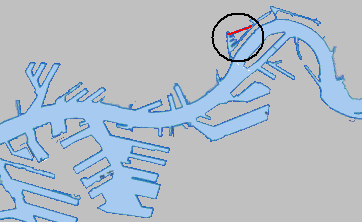 A map indicating the location of the above harbour in the Rotterdam harbour area.